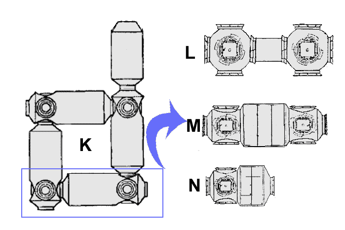 Early american space station concept : from the ‘common module’ to the node